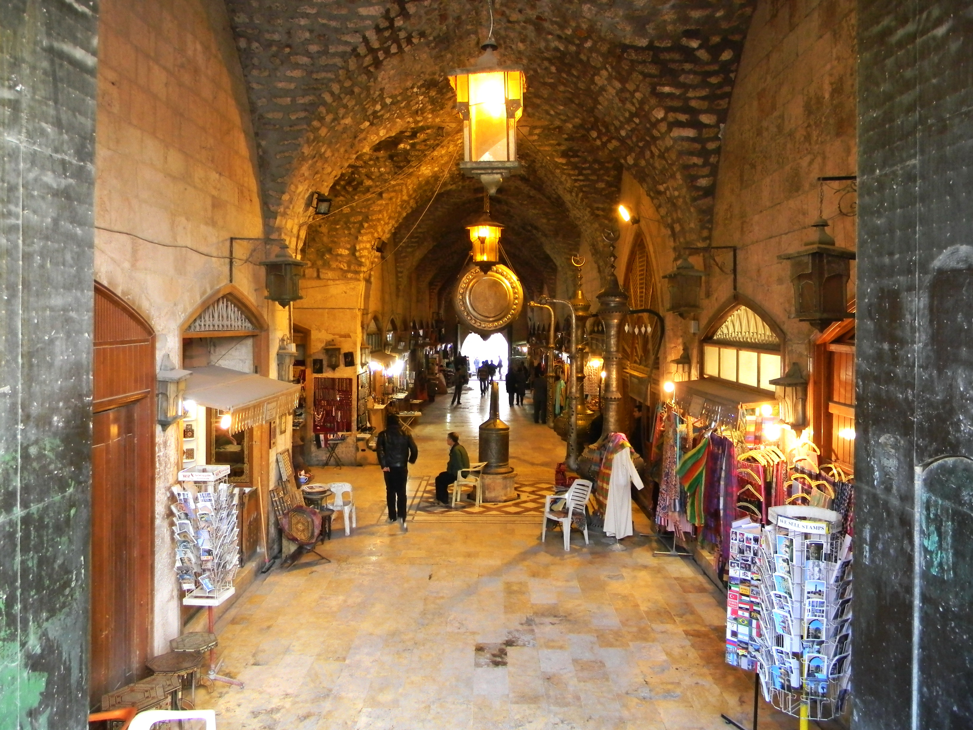 Khan al-Shouneh, Aleppo